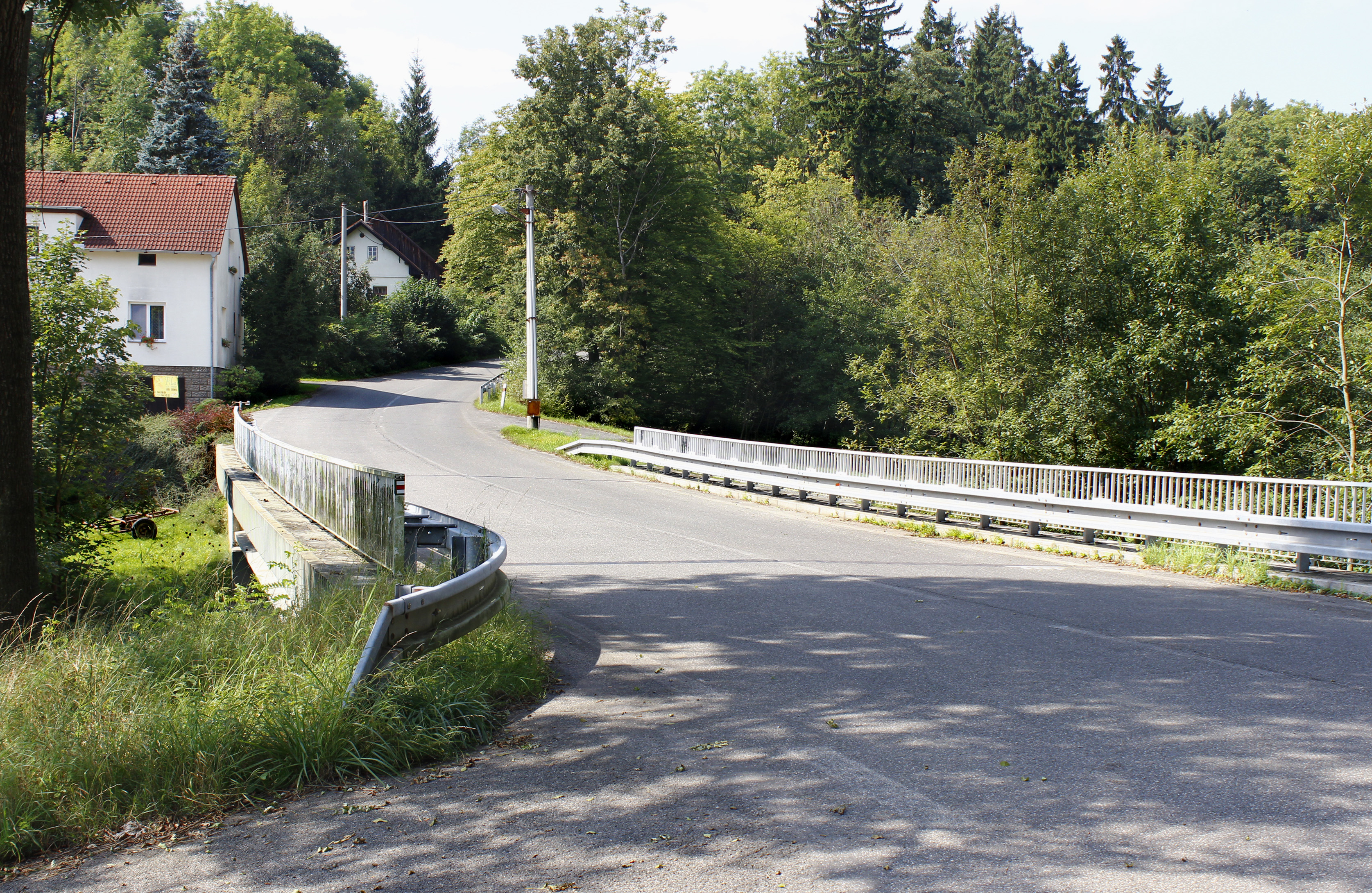 A bridge over Dědina river in Škutina, part of Podbřezí, Czech Republic